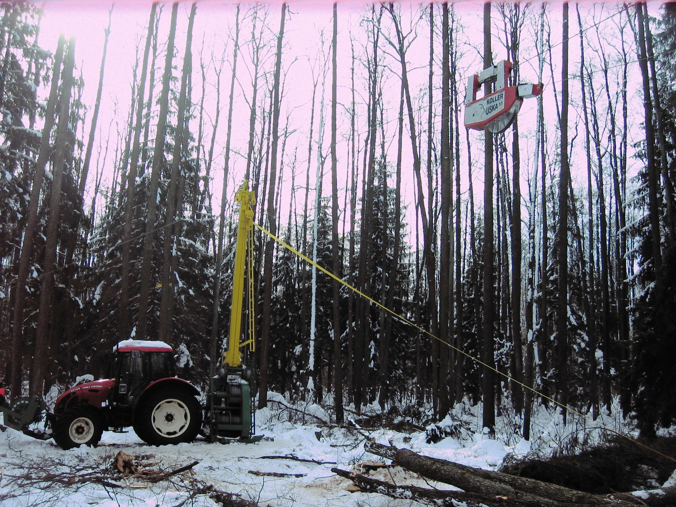 Cable crane Larix Lamako.